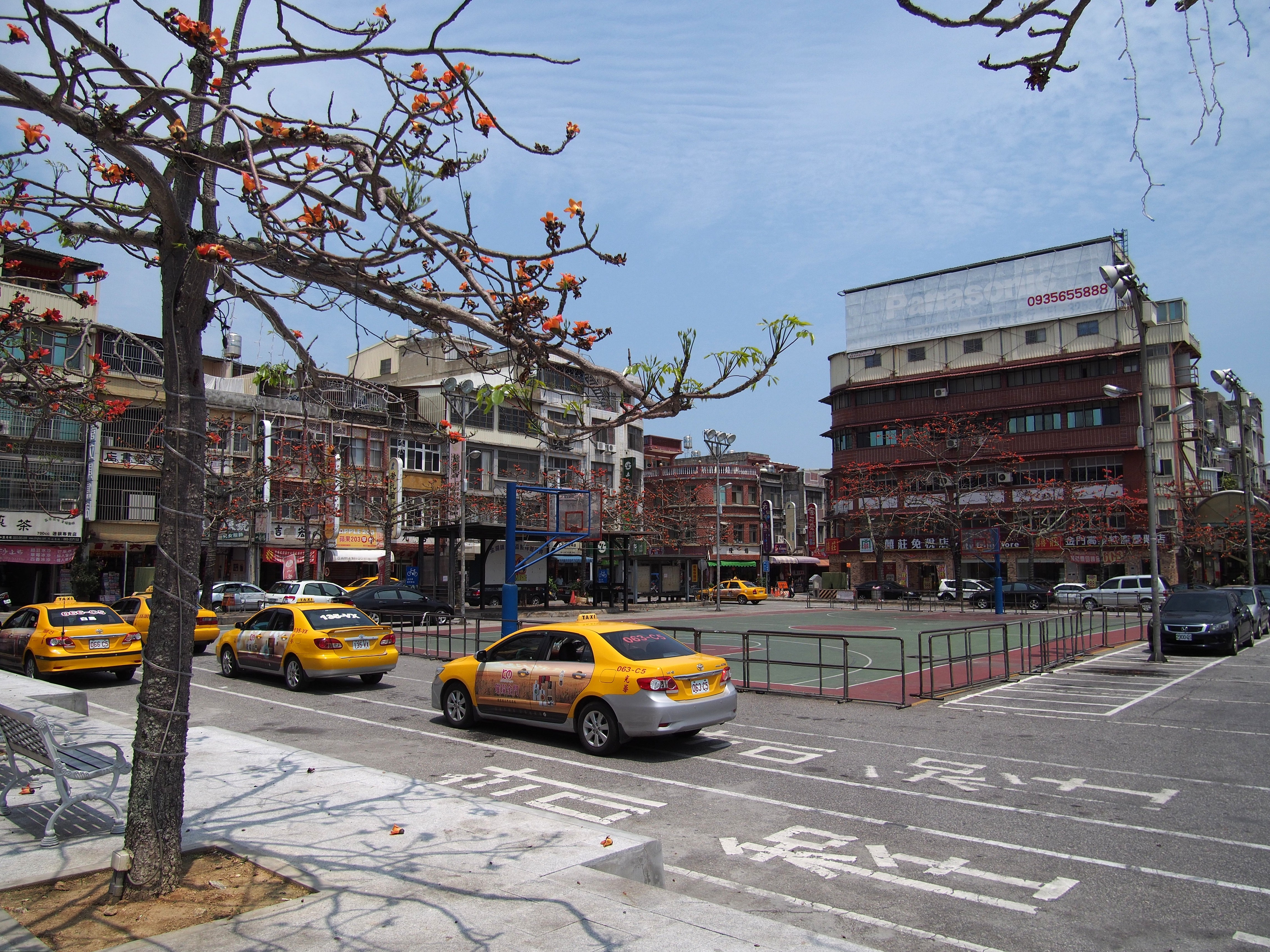 Jinhu Township - 2014.05